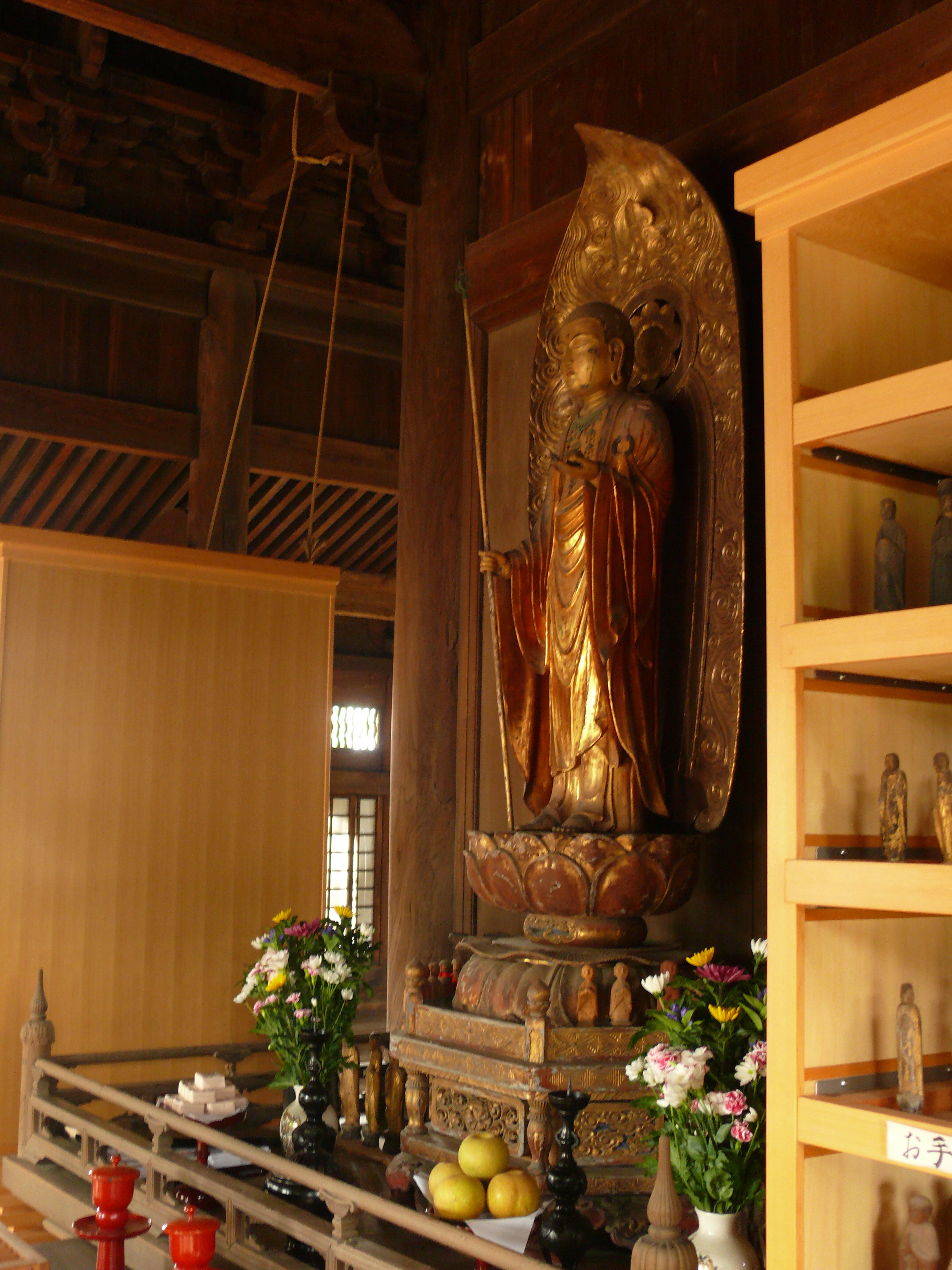 Shofukuji Interior Kannon Statue. This building is a listed National Treasure of Japan and the only one in the Tokyo metropolitan district. It was built in 1278 and rebuilt in 1407 and is the oldest intact building in Tokyo. It it is one of the most complete and original Kamakura Era buildings in existence. It contains significant architectural innovations including the the use of elastic Japanese cypress, steel support chisels, decorative but functional brackets, and cantilevers. These innovations permitted a structure that appears lightweight and open with its curved hip roof, open interior, and floating, upturned eaves while being structurally sound against earthquakes.